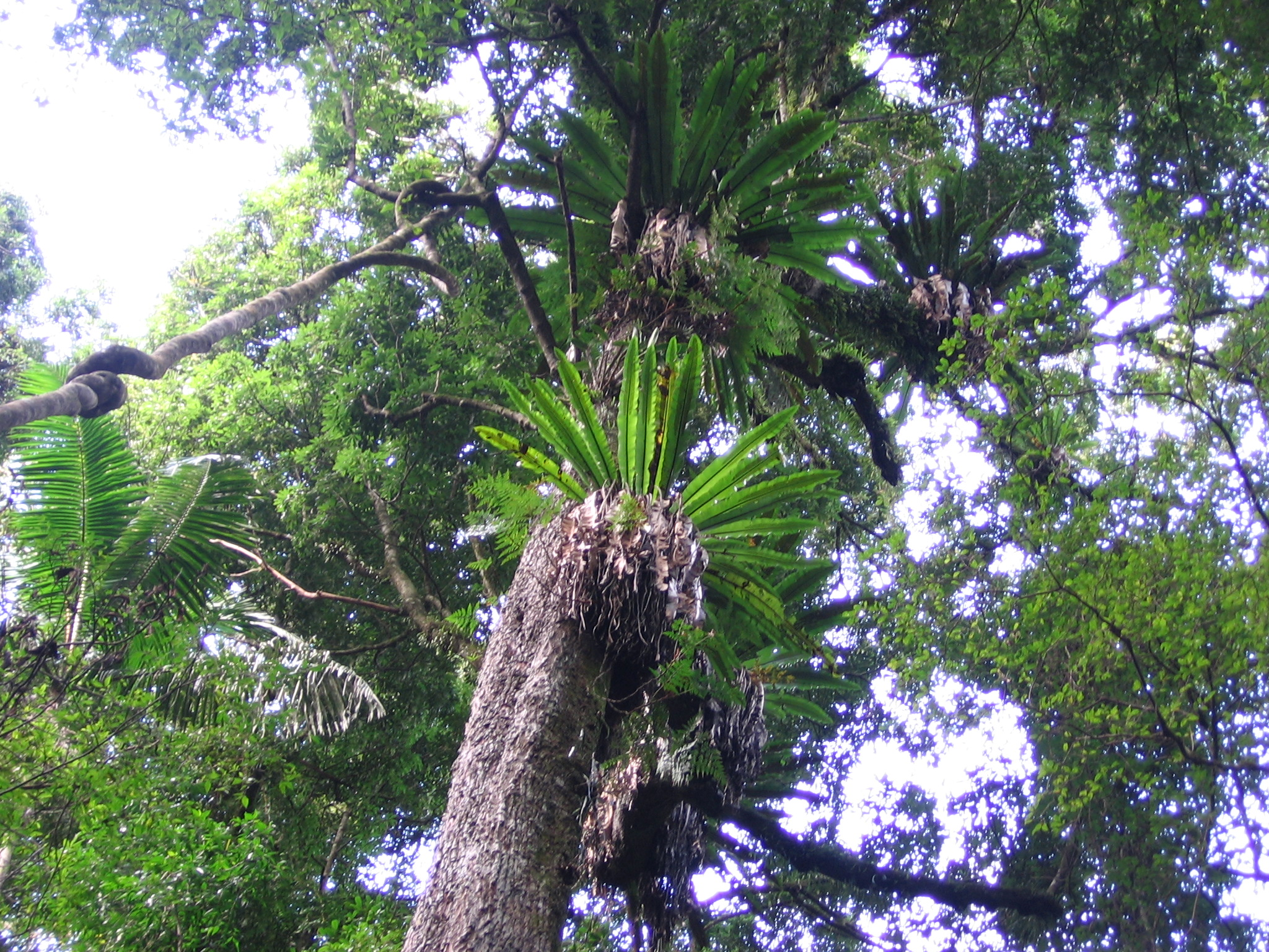 Photo of forest canopy at Goomburra Forest Reserve section of Main Range National Park.